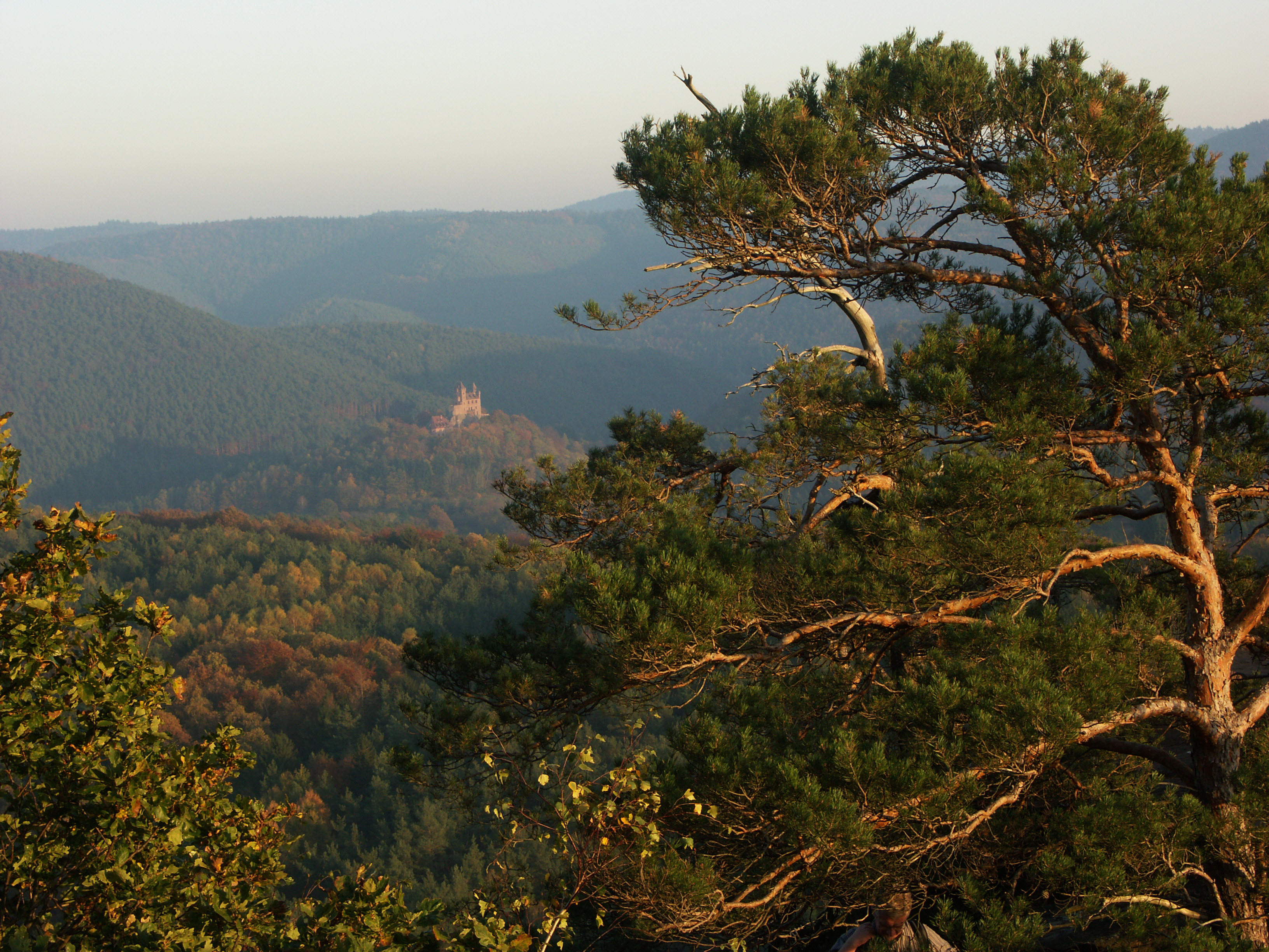 View on castle Burg Berwartstein from Heidenpfeiler (north-west).